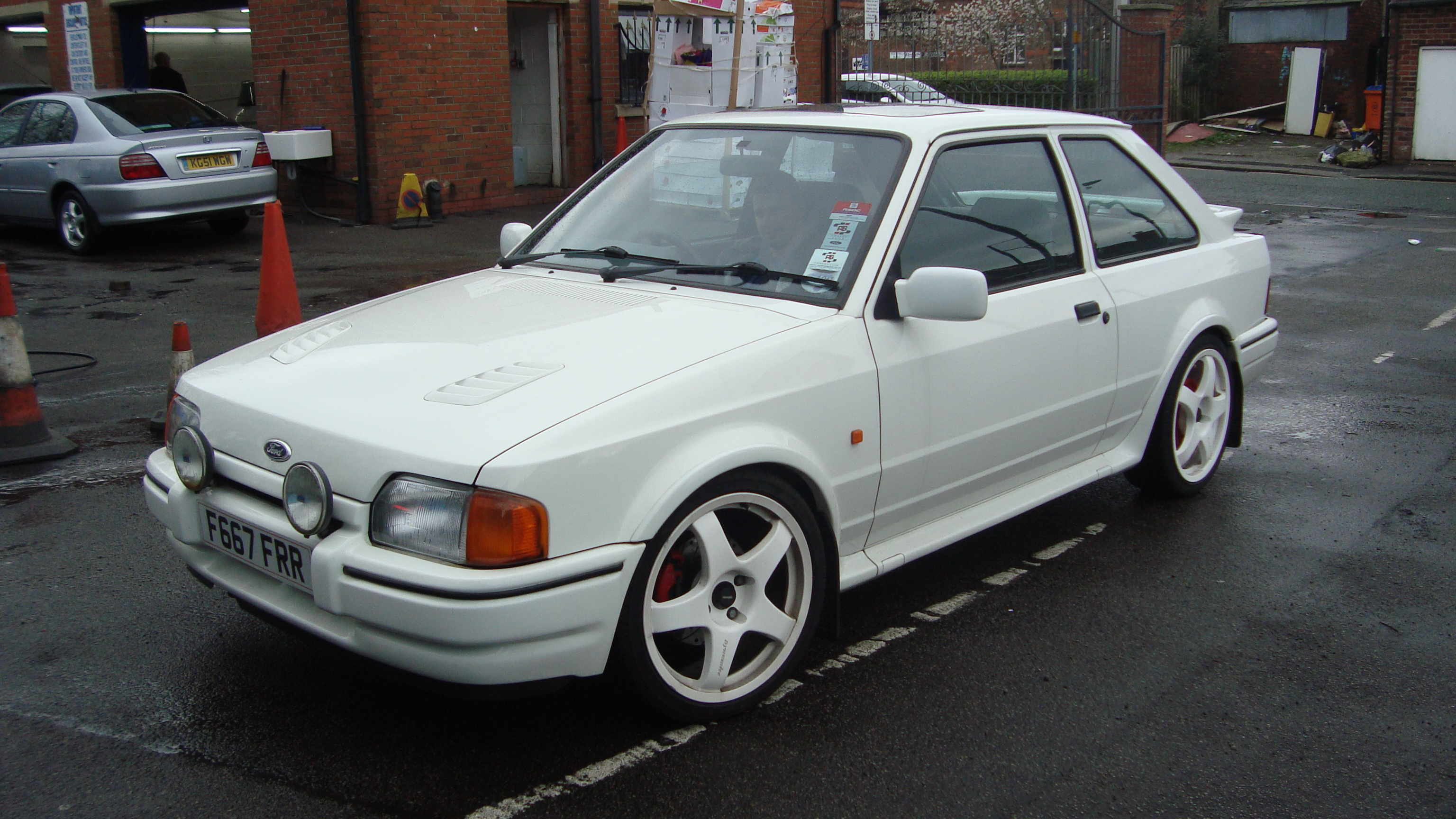 One of 2 RS Turbo's that I know of locally, was waiting in the queue at the car wash, definitely a car I'd like to own one day